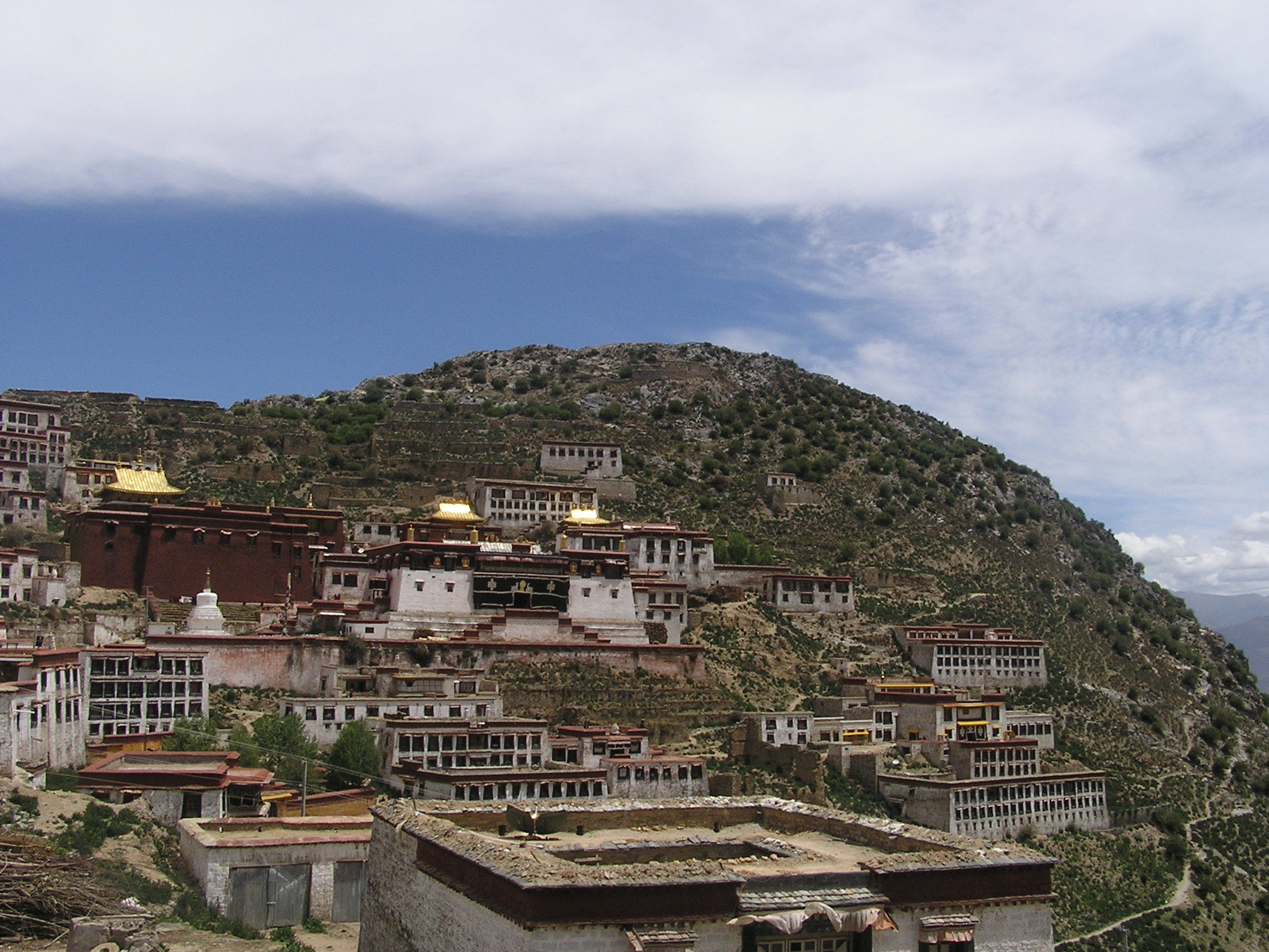 Ganden Monastery 23.